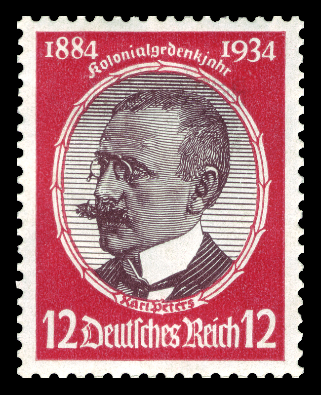 German researcher of colonies Graphics by unbekannt Ausgabepreis: 12 Pfennig First Day of Issue / Erstausgabetag: 30. Juni 1934 Michel-Katalog-Nr: 542 (Deutsches Reich)